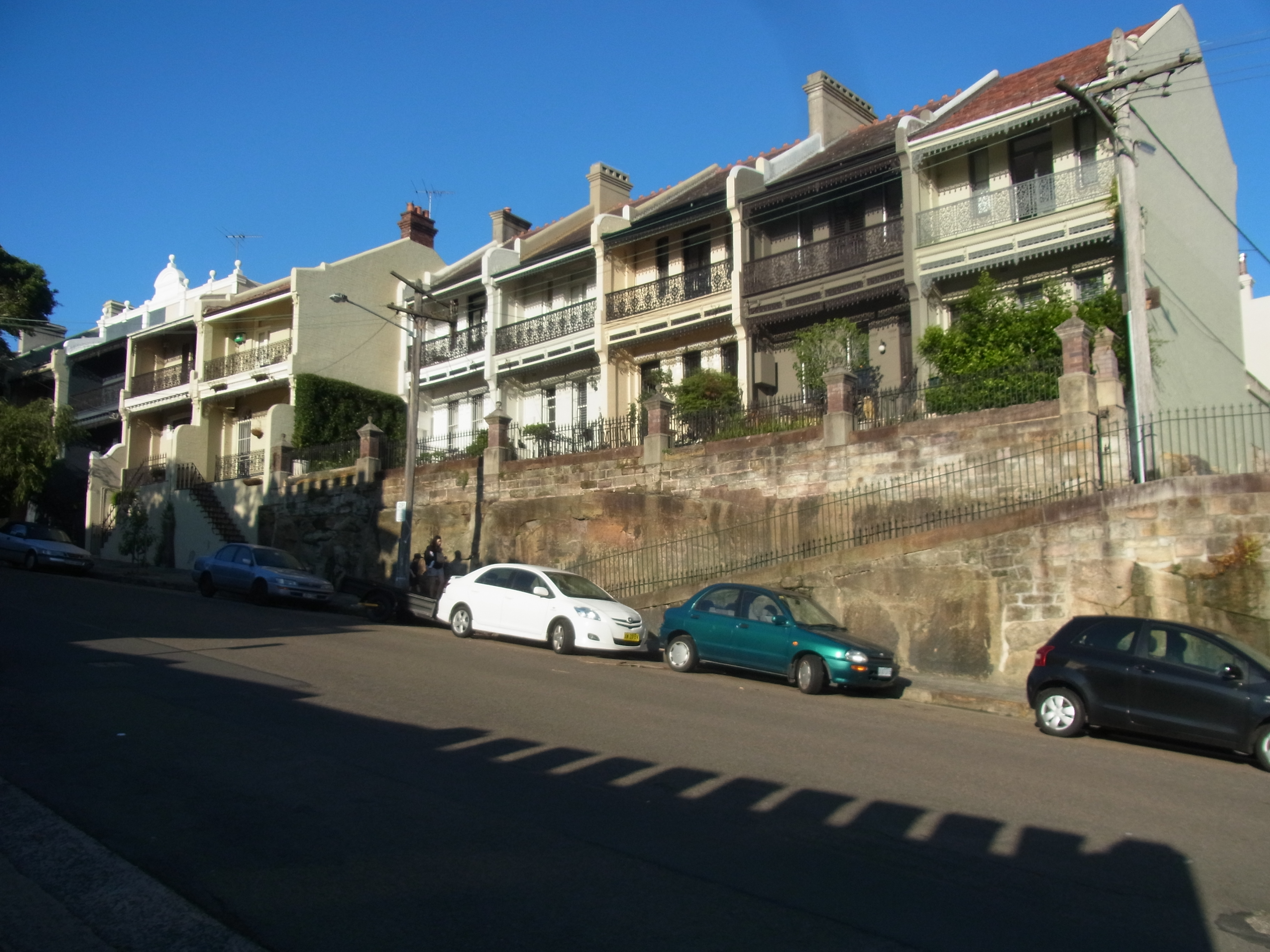 Photo of terraces house in Cascade Street Paddington, NSW, taken March 2014